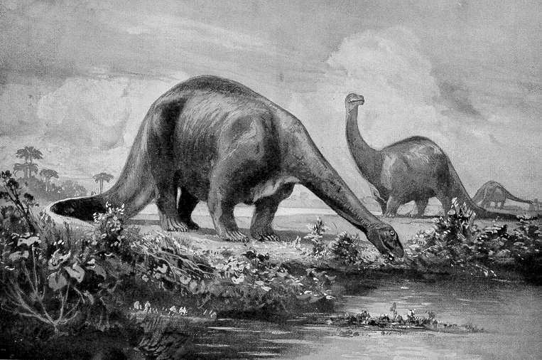 The Wonderful Paleo Art of Heinrich Harder - Earth History Illustrations from the 1906 articles in Die Gartenlaube